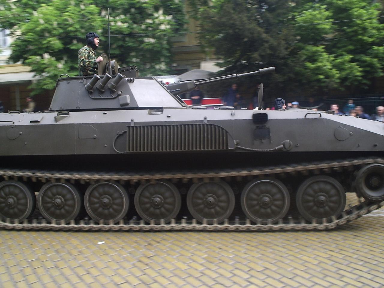 A BMP-23 on a parade.